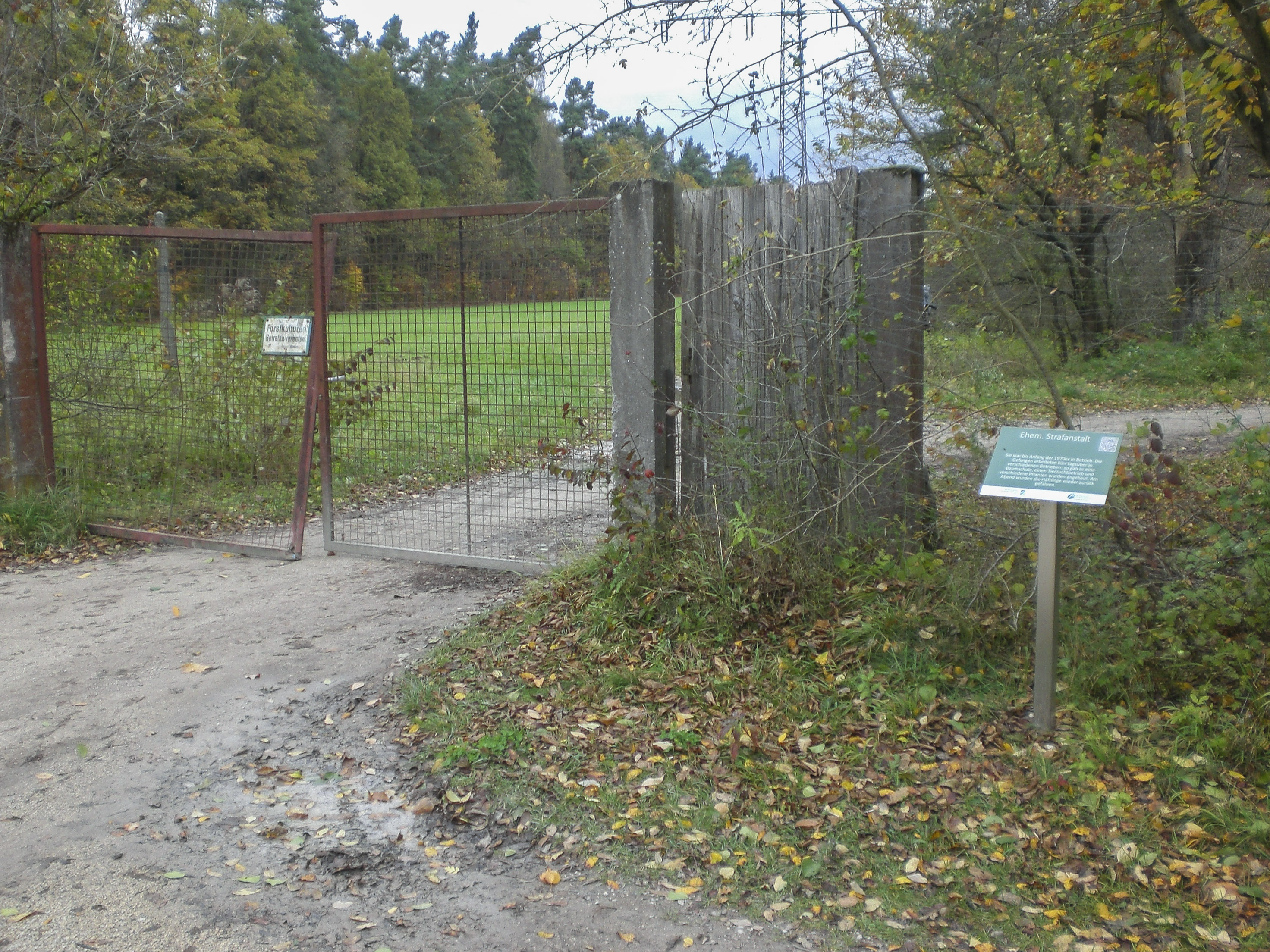 Ehemalige Strafanstalt, Holzweiher, Forsthof